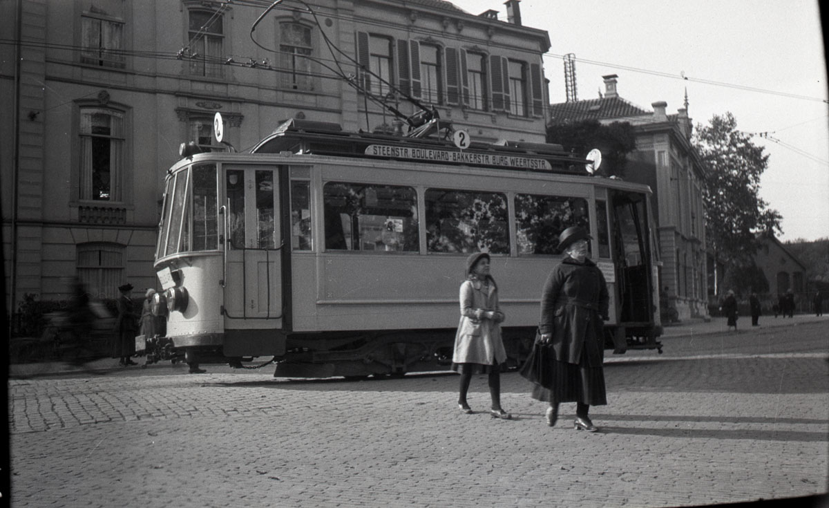 Tram in Arnhem 1922. Photo Nr: 2157-18.